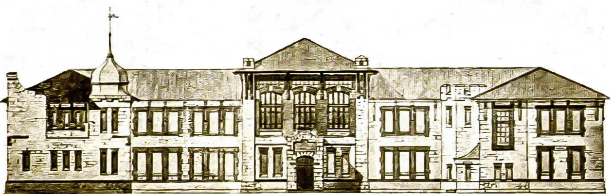 Project painting of Kingisepp commercial school building.